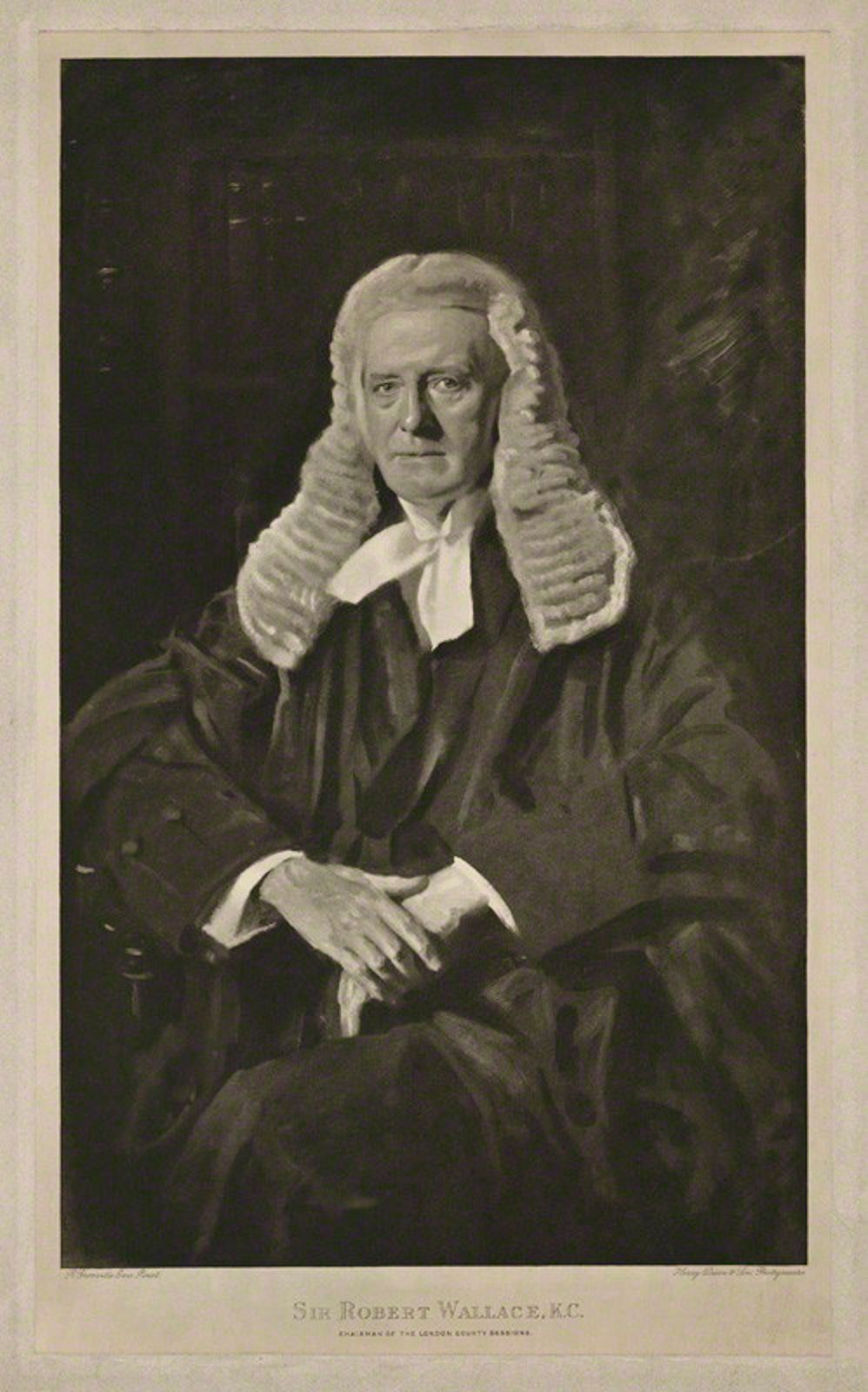 A photogravure of Sir Robert Wallace KC (1850 – 19 March 1939) by Henry Dixon & Son, after Reginald Grenville Eves. Sir Robert was barrister who served as the Member of Parliament for Perth from 1895 to 1907, and then was Chairman of the County of London sessions from 1907 to 1931.